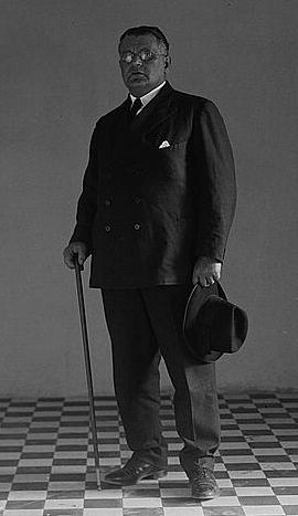 Pinhas Rutenberg was founder of the Palestine Electric Company. (Source: researcher N. Lavsky, 2007)